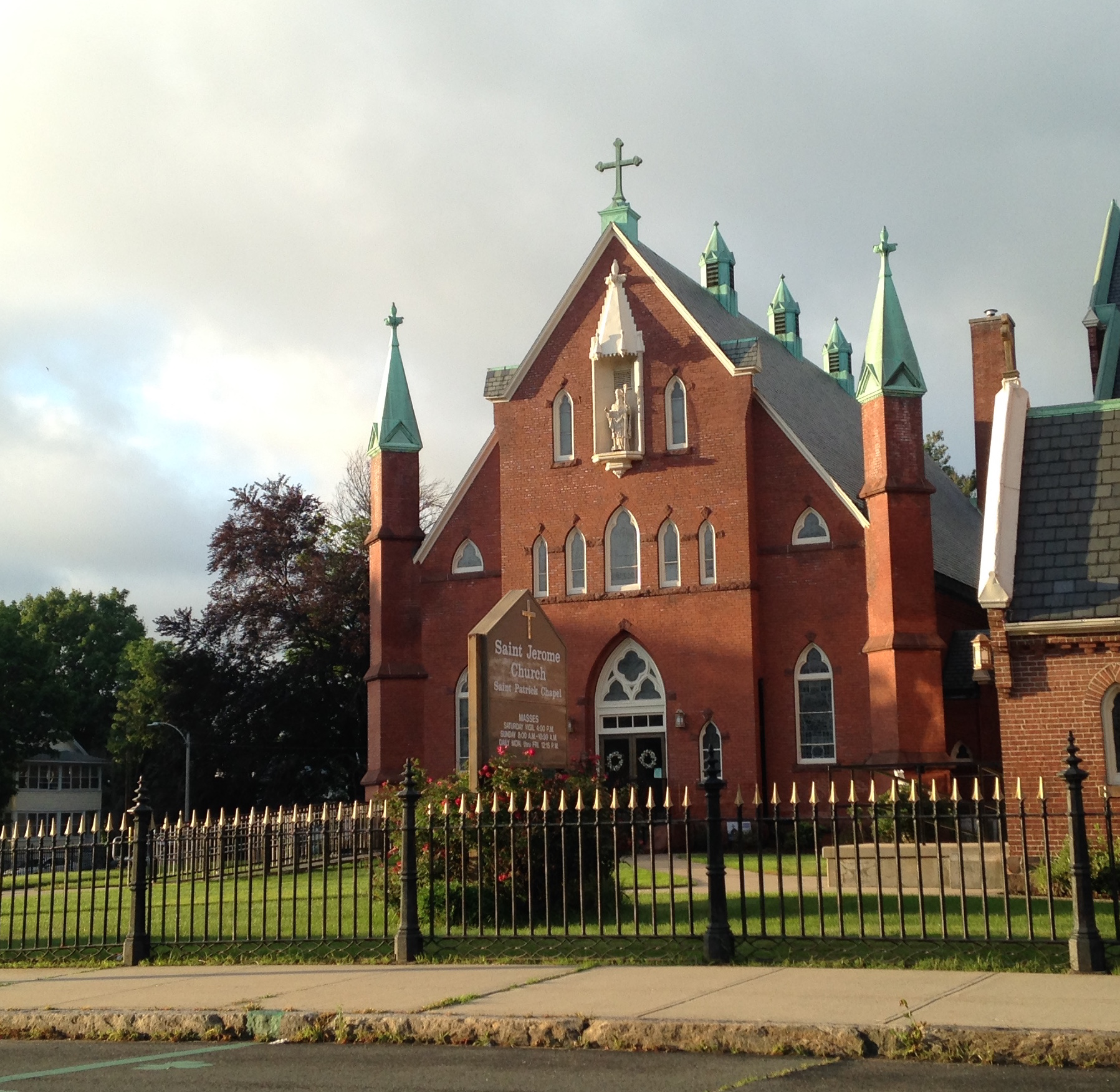 The Saint Patrick Chapel of St. Jerome Church, the first Catholic church established in Holyoke, Massachusetts in 1856, as it appears today.